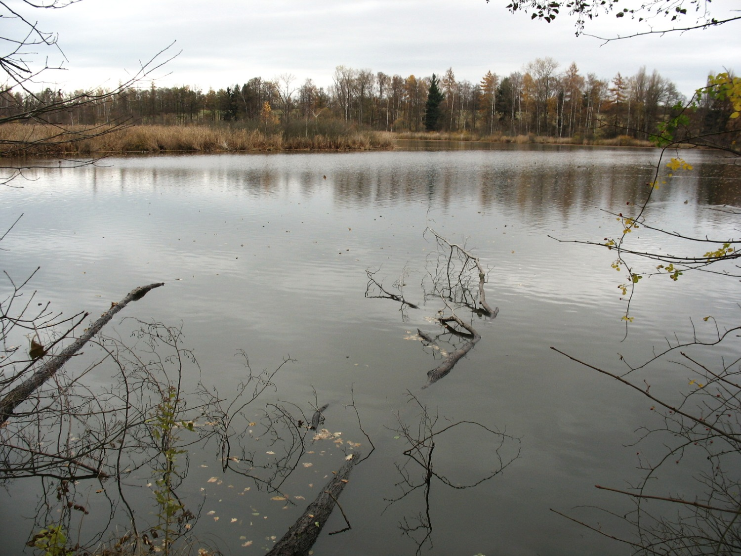 Natural monument Nový rybník u Soběslavi in Tábor District, Czech Republic